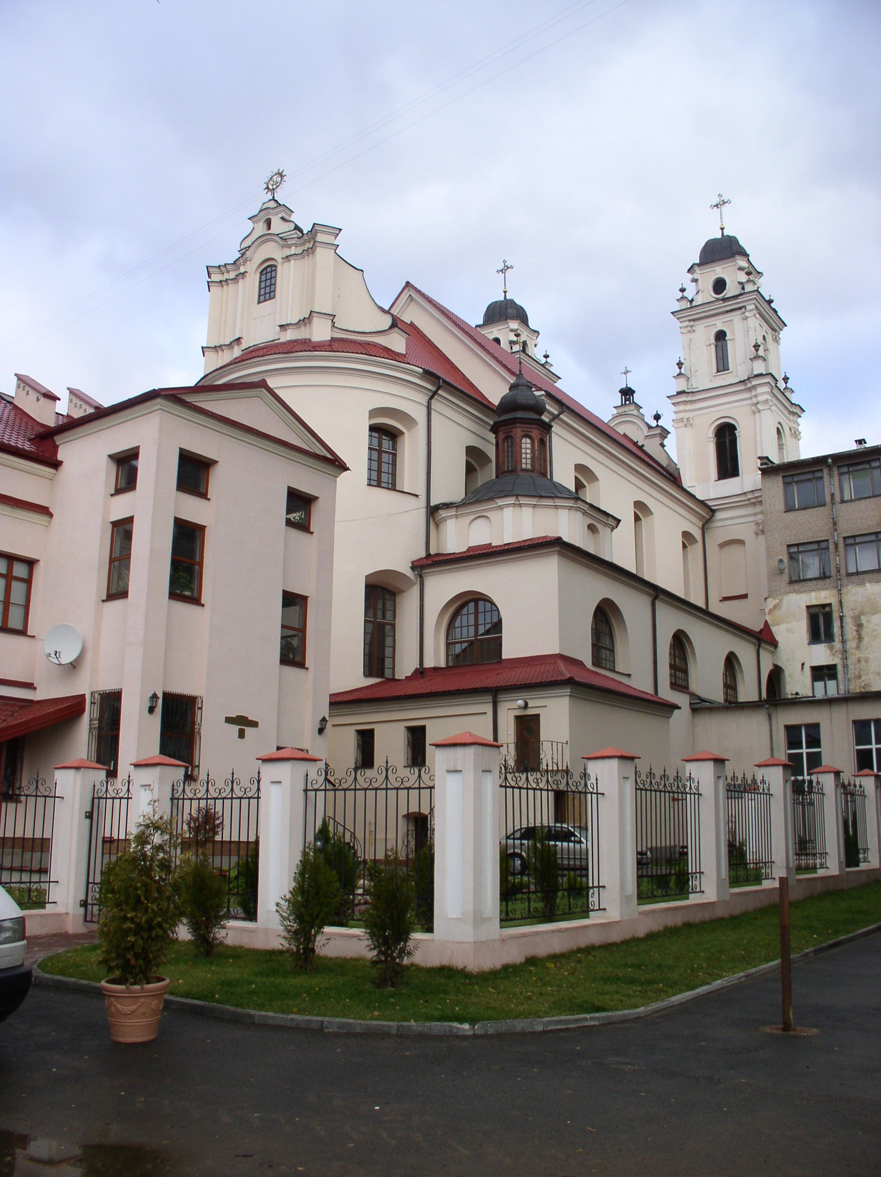 Archcathedral of Name of the Blessed Virgin Mary. Minsk, Belarus.